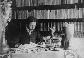 Alexandre Mercereau (1866 – 1948) was a French poet.